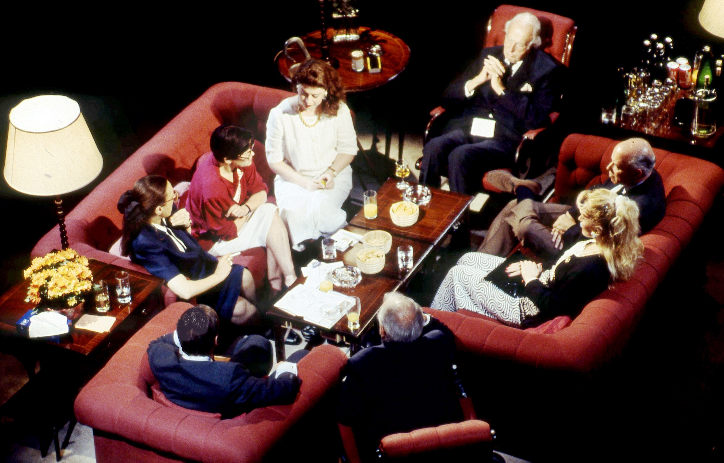 After Dark - episode 'Bloody Bosnia' - transmitted on 7 August 1993, hosted by Ian Kennedy with guests Fitzroy Maclean, Nikola Koljević, Gordana Knezević, Melanie McDonagh, Sean Gervasi, Amela, and Branka Magas.